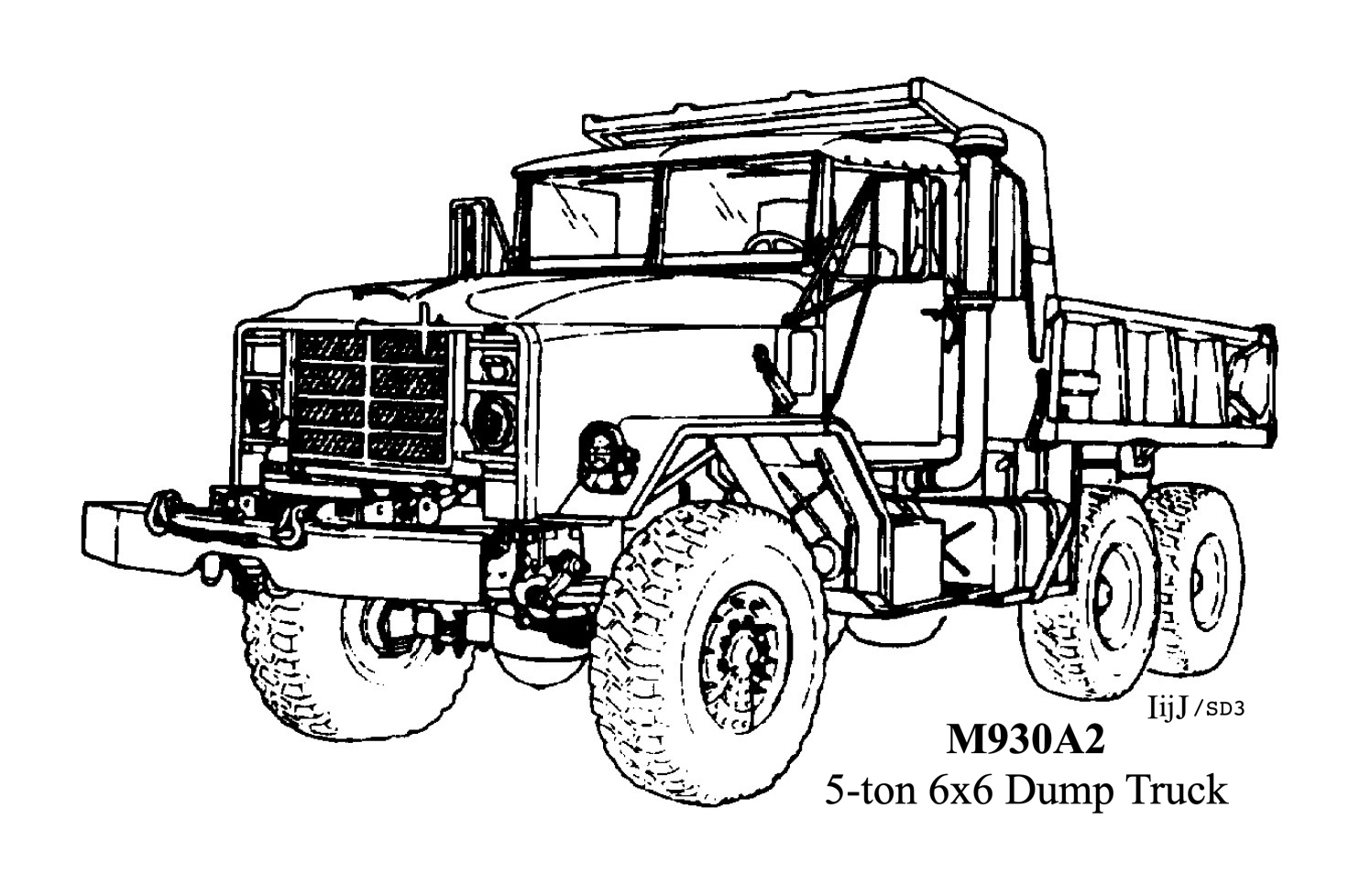 M925A2 "Truck, Dump, 5-ton, 6x6" drawing from a US Army Technical Manual, labeled and cropped for size